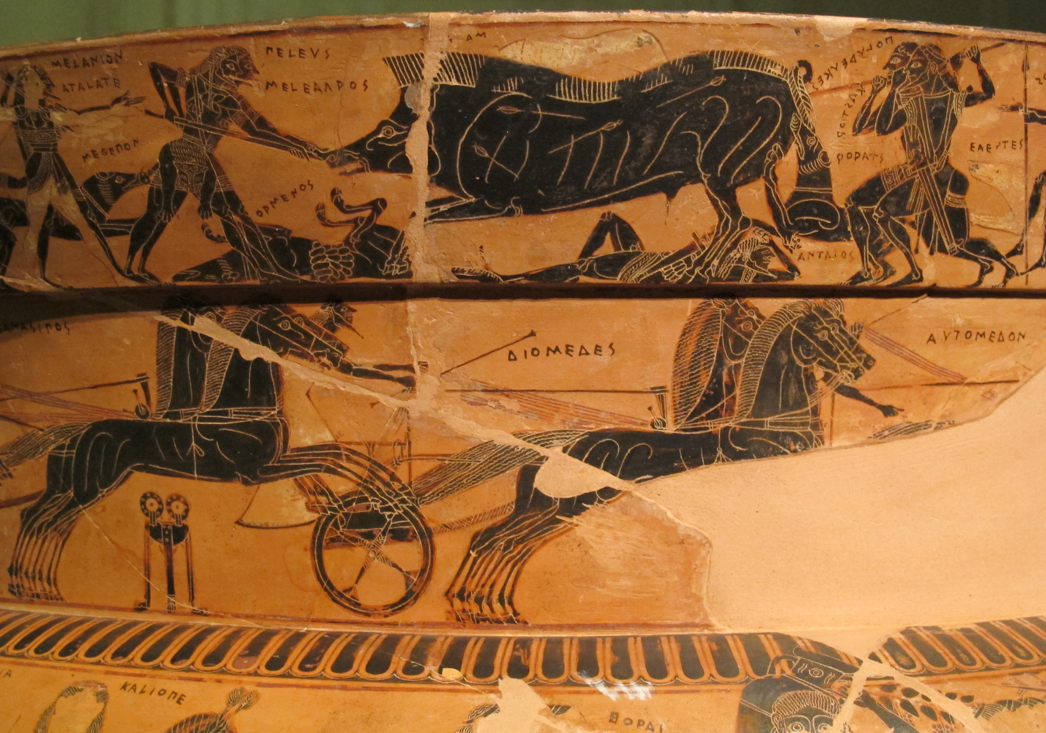 François vase